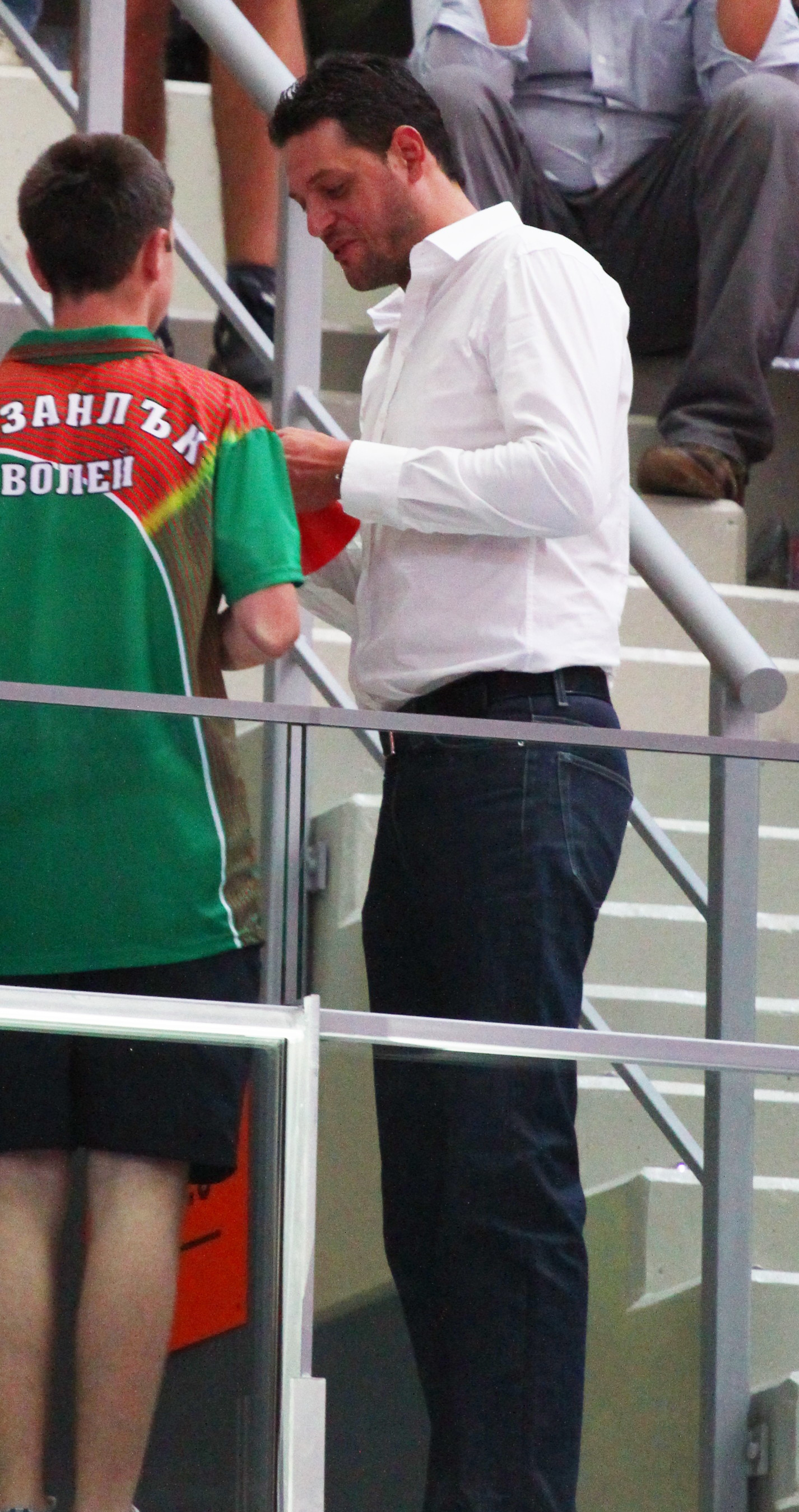 Plamen Georgiev Konstantinov (b. 14 June 1973) is a former Bulgarian volleyball player and captain of the Bulgaria men's national volleyball team,coach.